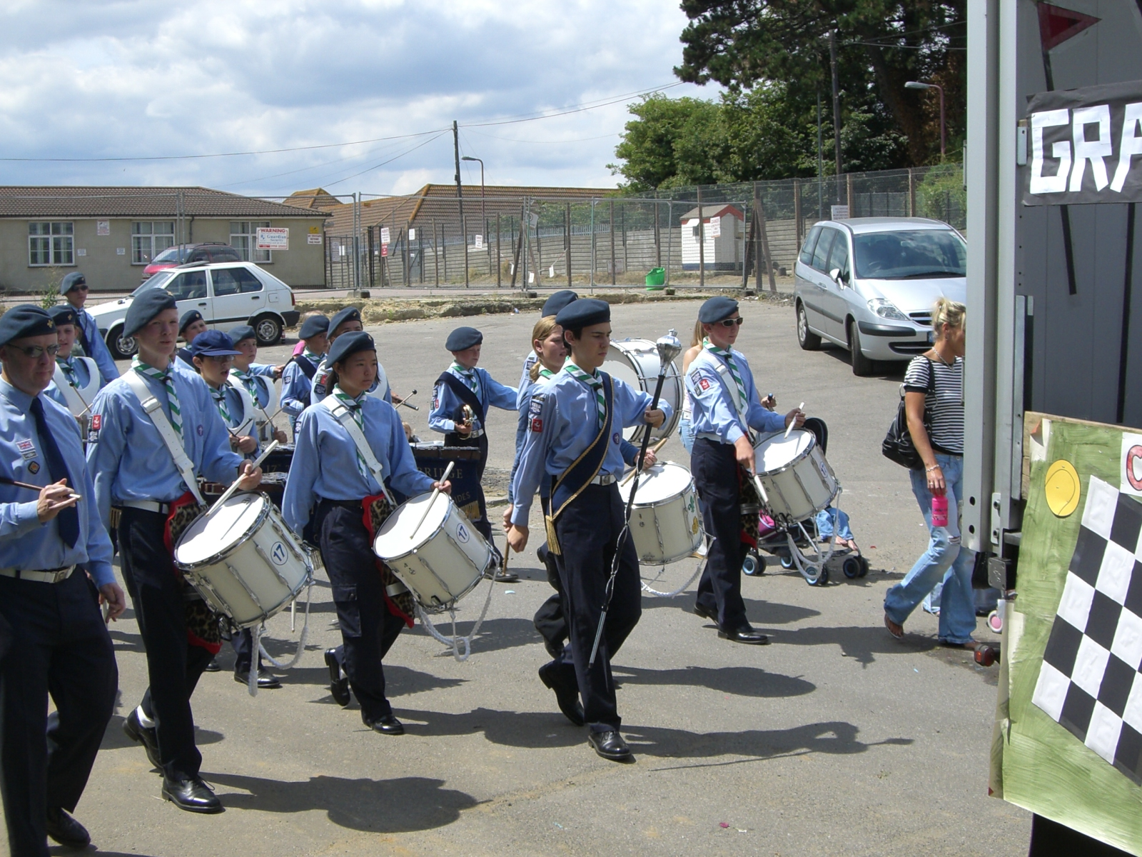 A picture of the 17th Tonbridge Scout and Guide Band. A drumline with sling-harness snares